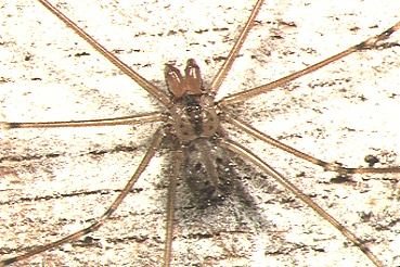 male Physocyclus globosus from Okinawa.